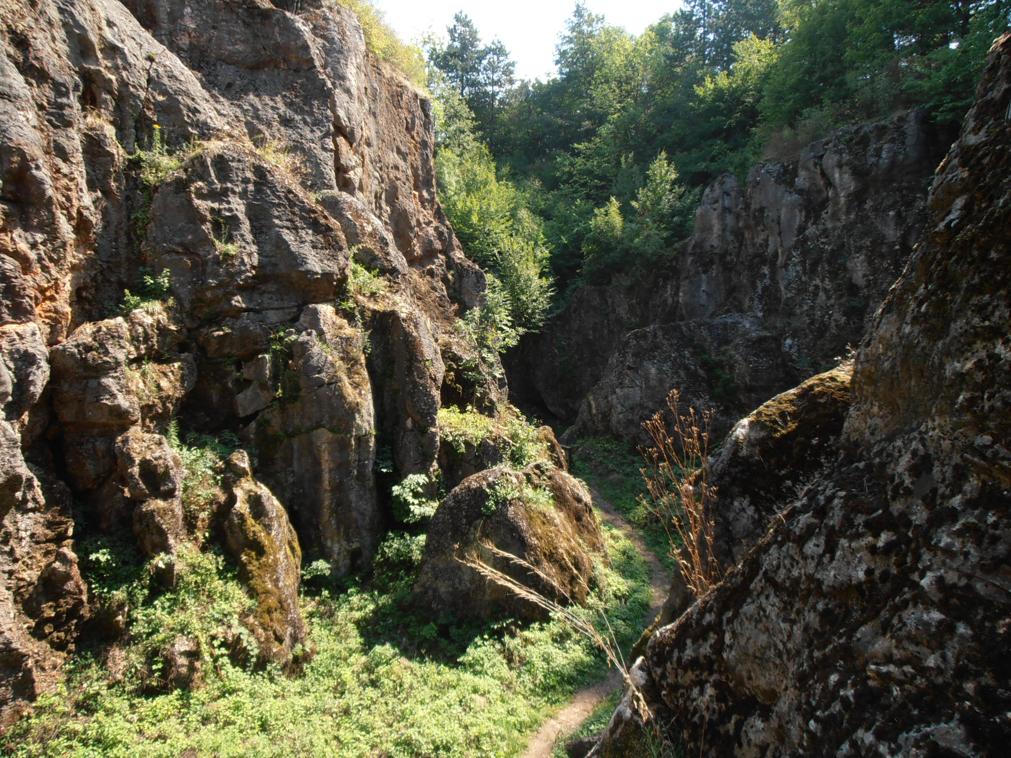 Ancient karst formation in an abandoned manganite quarry in Úrkút, Hungary Úrkúti őskarszt a régi mangánbányában